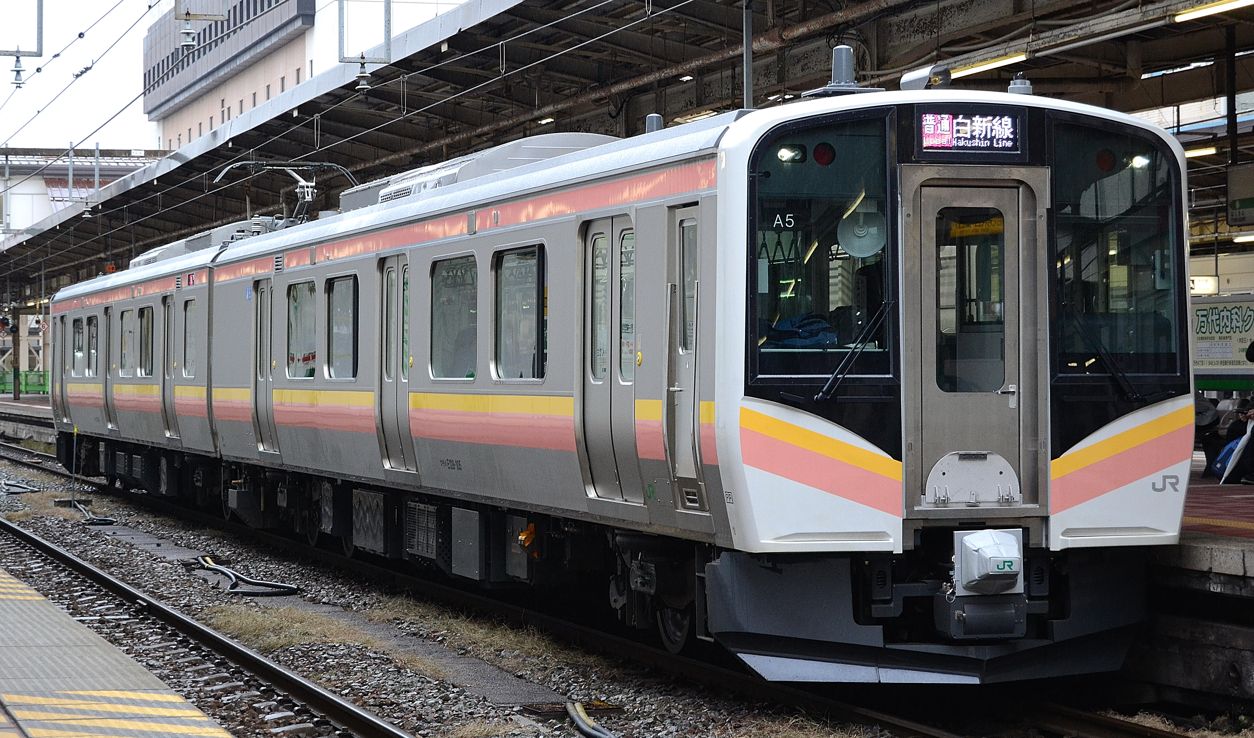 JR East E129 series EMU 2-car set A5 at Niigata Station on a Hakushin Line local service